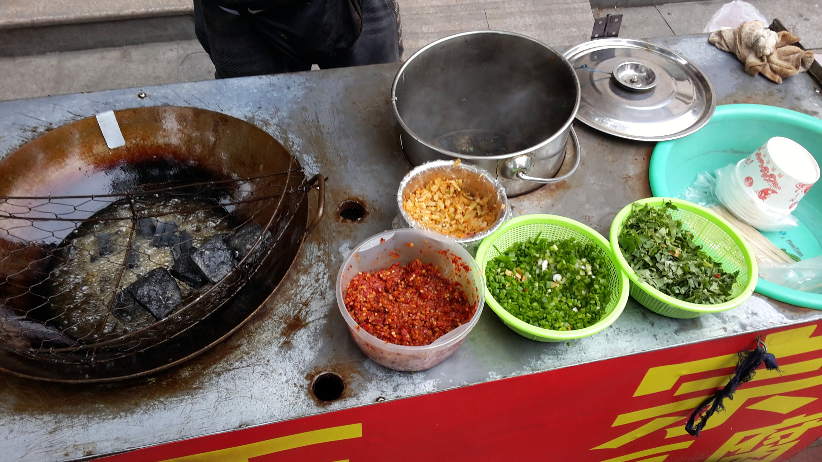 True original Changsha stinky tofu